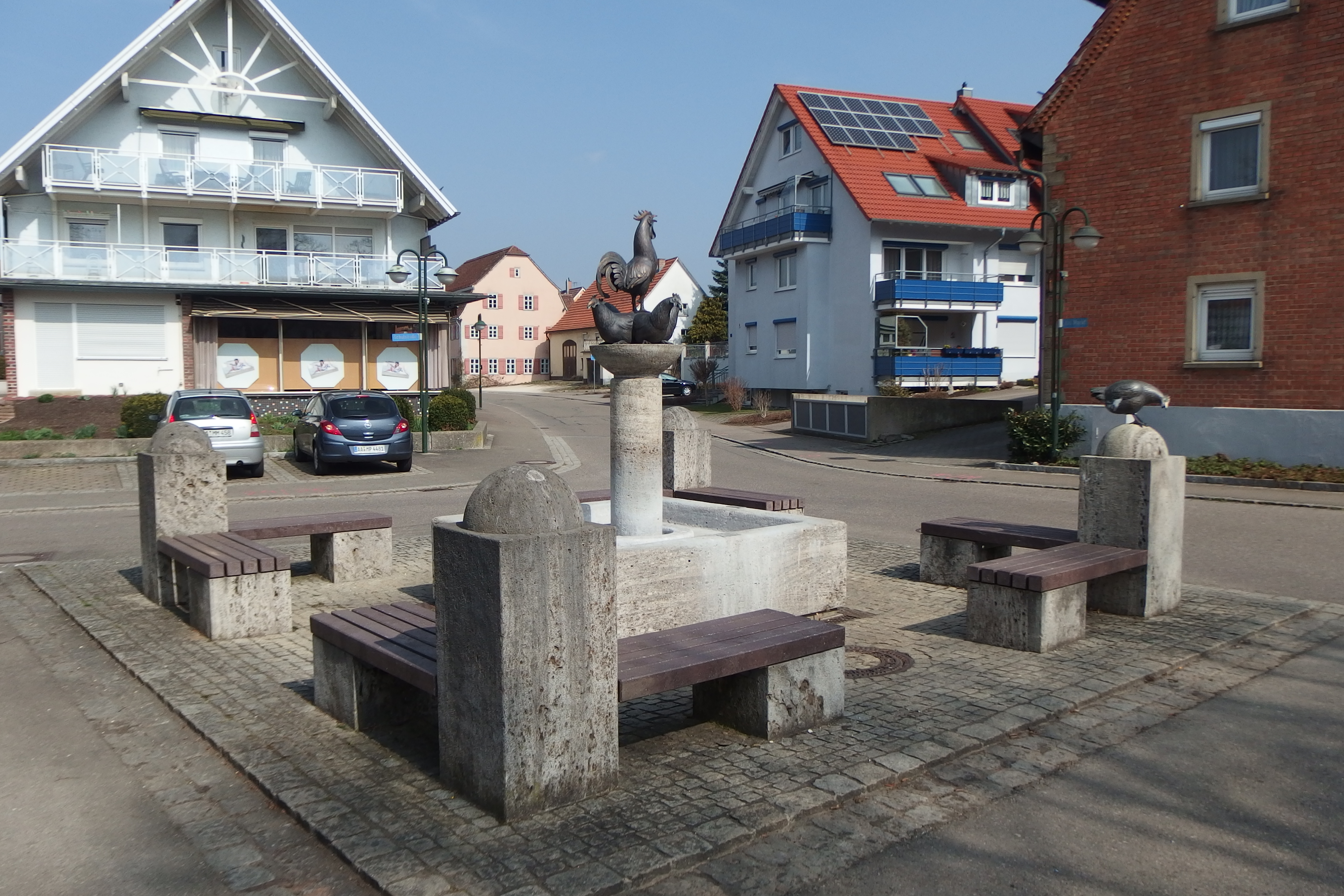 Mögglingen village fountain